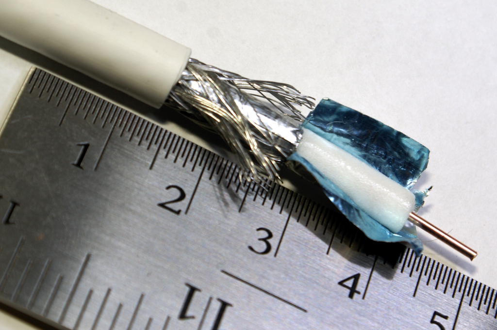 Photo of RG-6 Coaxial cable